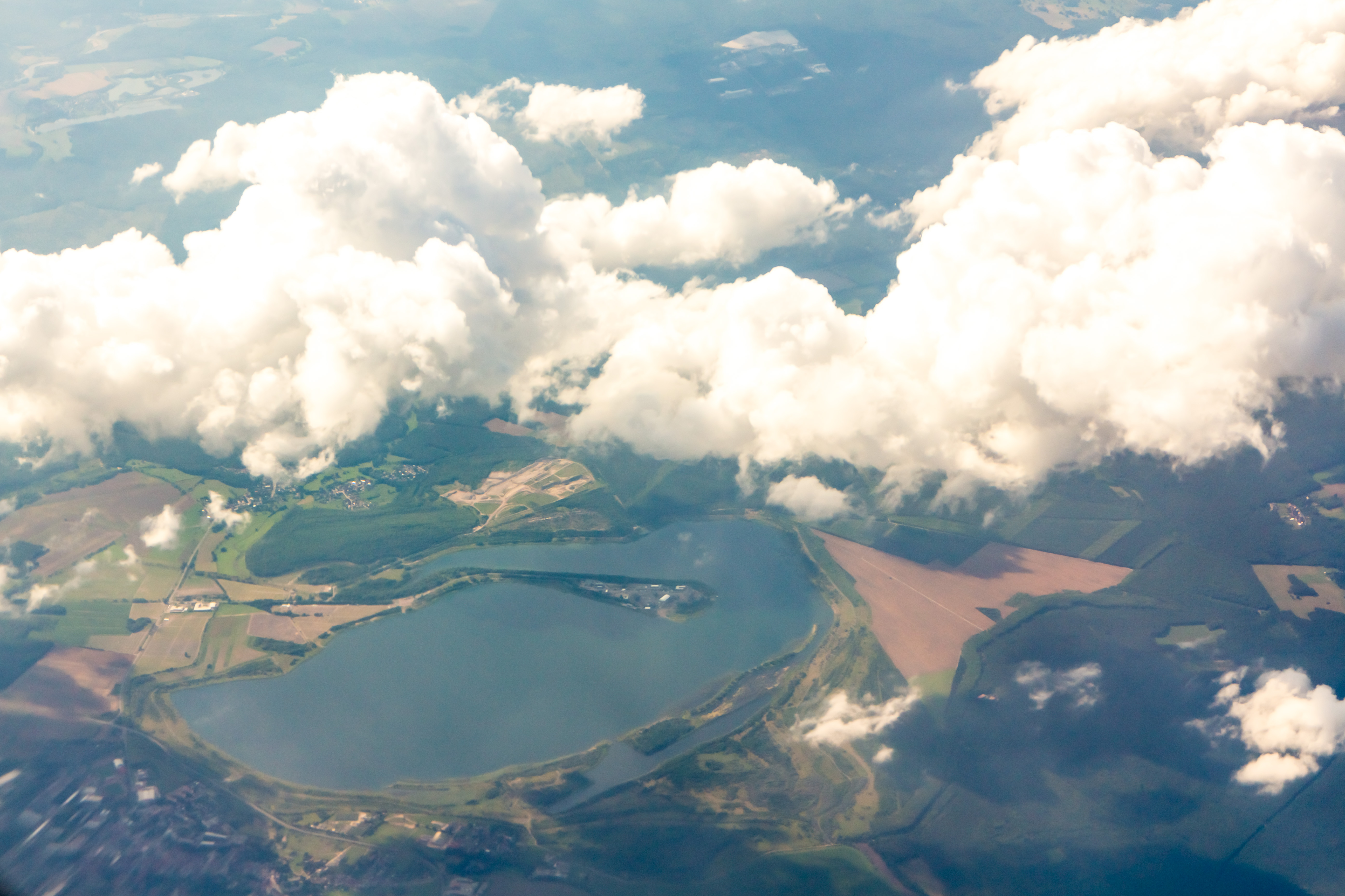 Ferropolis